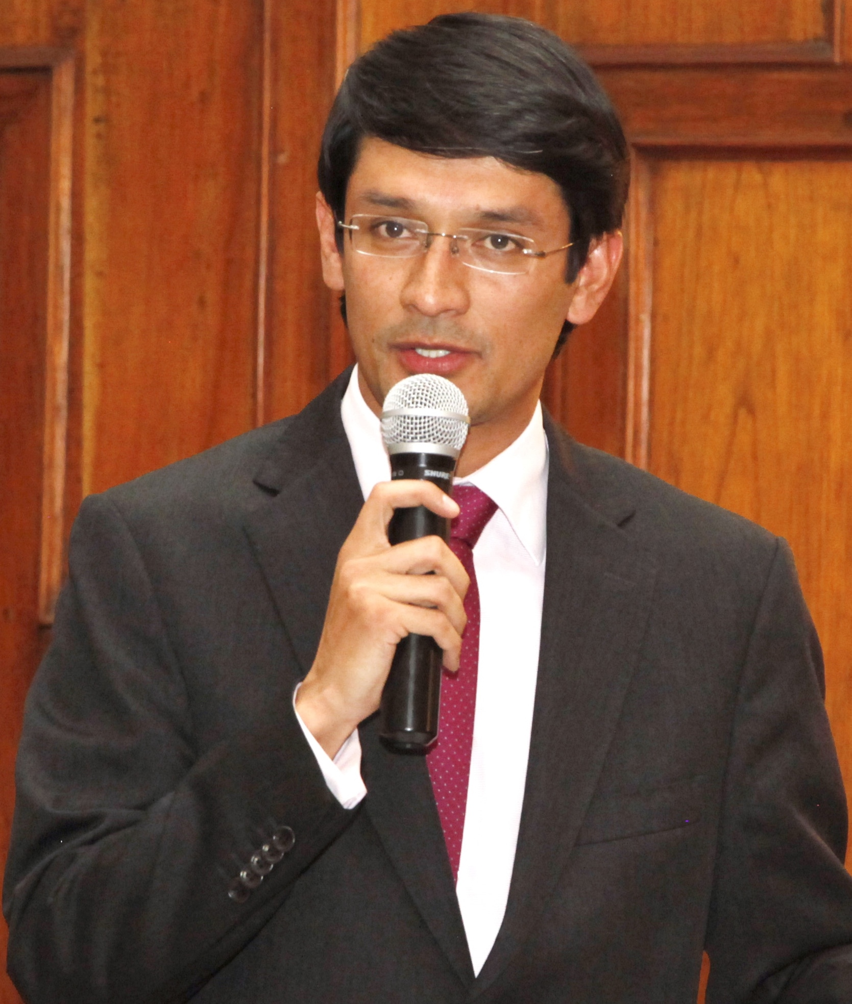 Quito (Ecuador), 18 de julio 2013. Nelson López, Cónsul del Ecuador en Ipiales, lanza el libro "Juan Montalvo en Colombia". Asistieron: Luis Mueckay, Director de Promoción Cultural e Interculturalidad; Camilo Romero, Senador de Colombia; y Julio César Chamorro, Director de la Casa de Montalvo, Núcleo de Ipiales. Foto: Fernanda LeMarie - Cancillería del Ecuador.